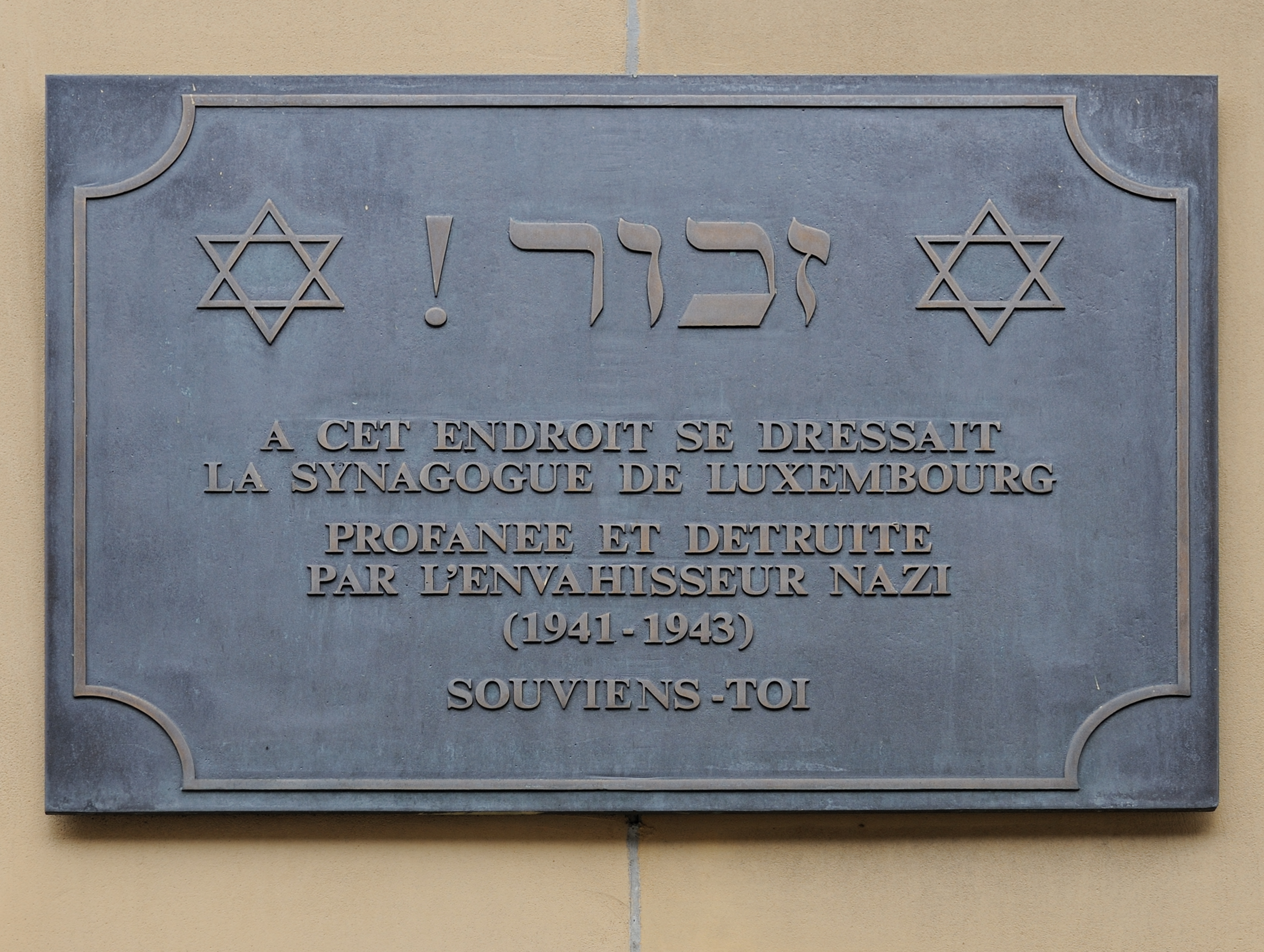 Luxembourg City, rue Notre-Dame: plaque commemorating the ancient synagogue inaugurated in 1894, destroyed (1941-1943) during the Nazi-occupation in World War II.